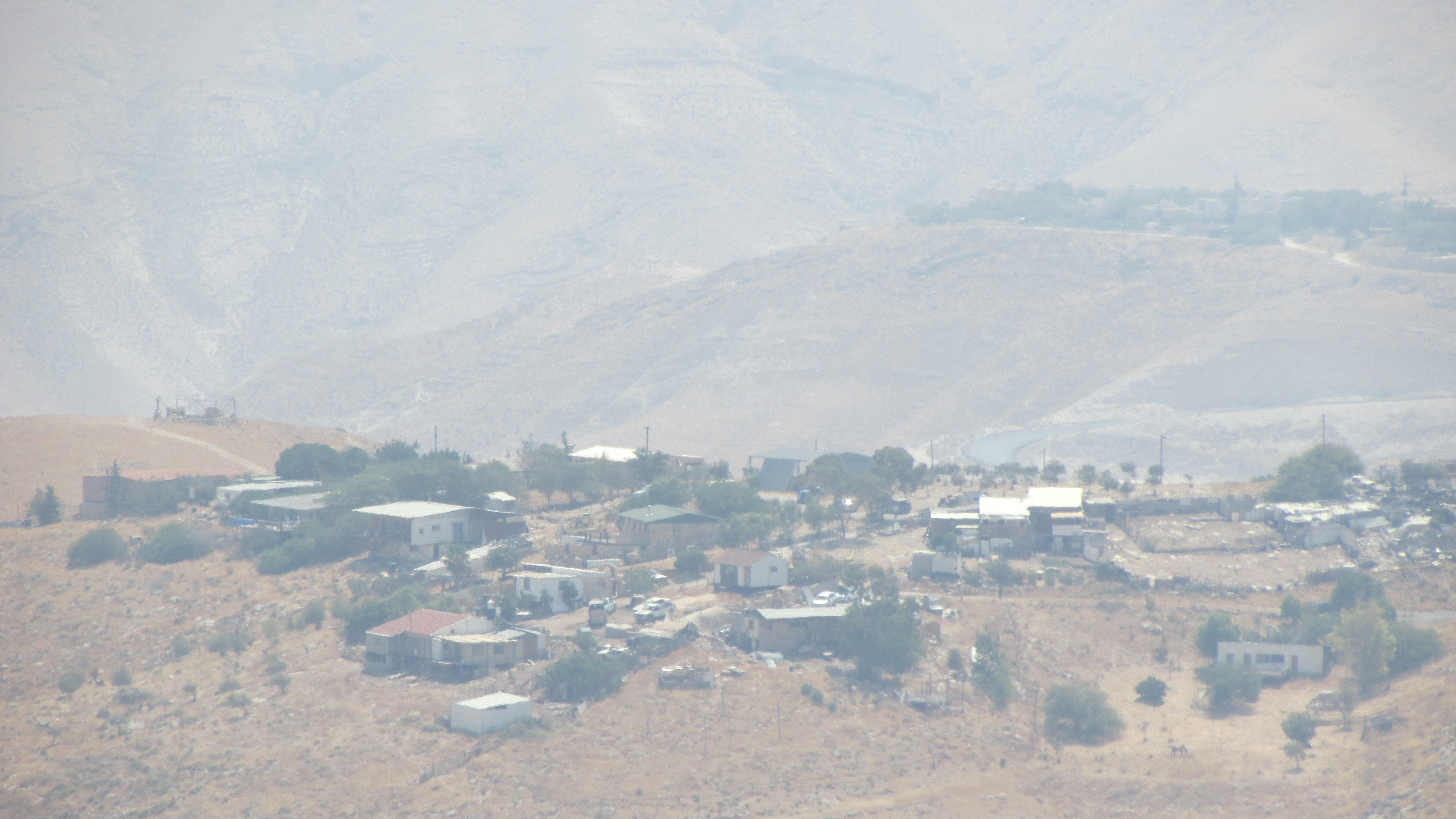 Mitzpe Hagit from the north west